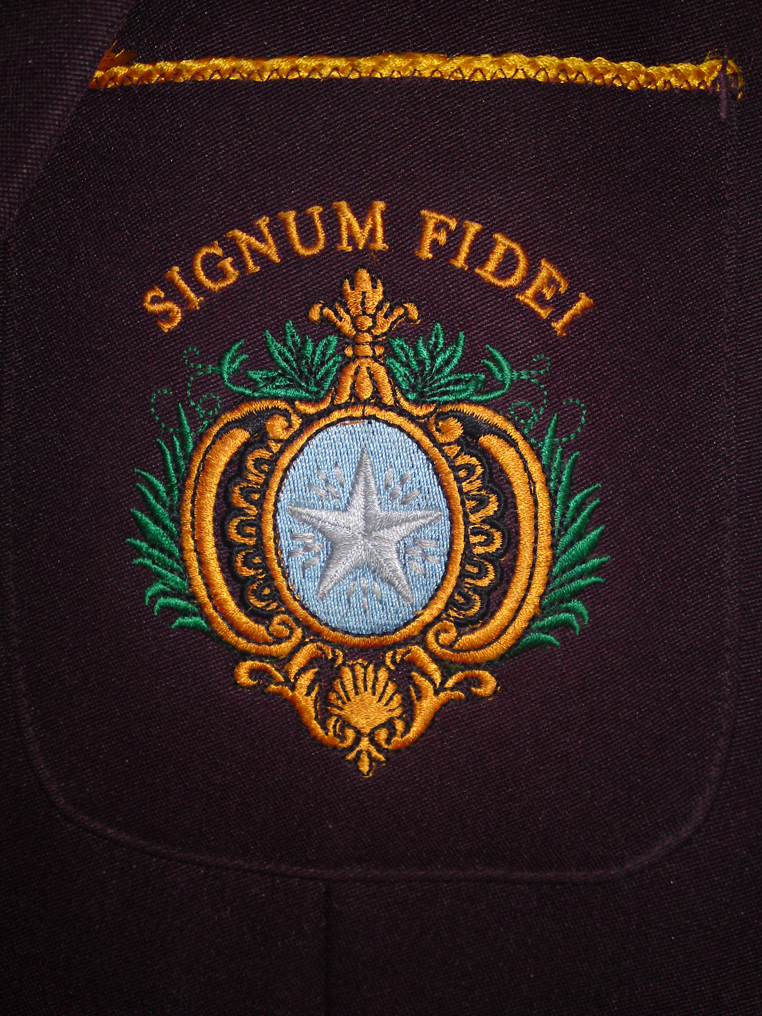 Crest from uniform of St Patrick's Grammar School Downpatrick